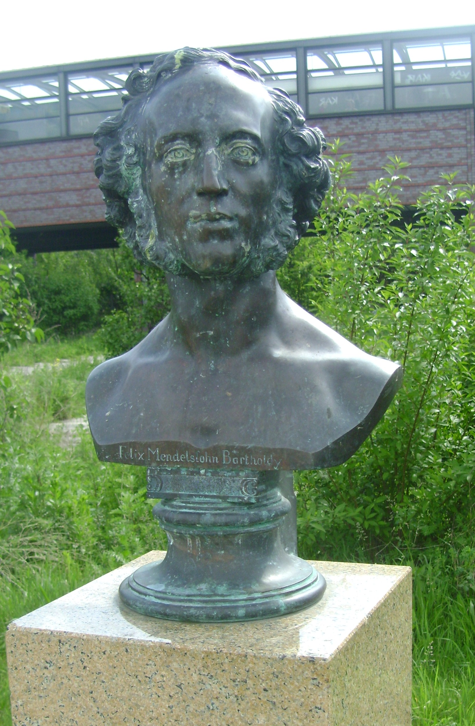 Bronze copy made in 2000 of the bust in marble made in 1850 by Ernst Rieschel. In 2013, this bronze was removed from its orignal place near the Berlin U-Bahn station "Mendelssohn-Bartholdy-Park" to a permanent museum of the Mendelssohn-Society on the Dreifaltigkeits-Kirchhof I in Berlin-Kreuzberg